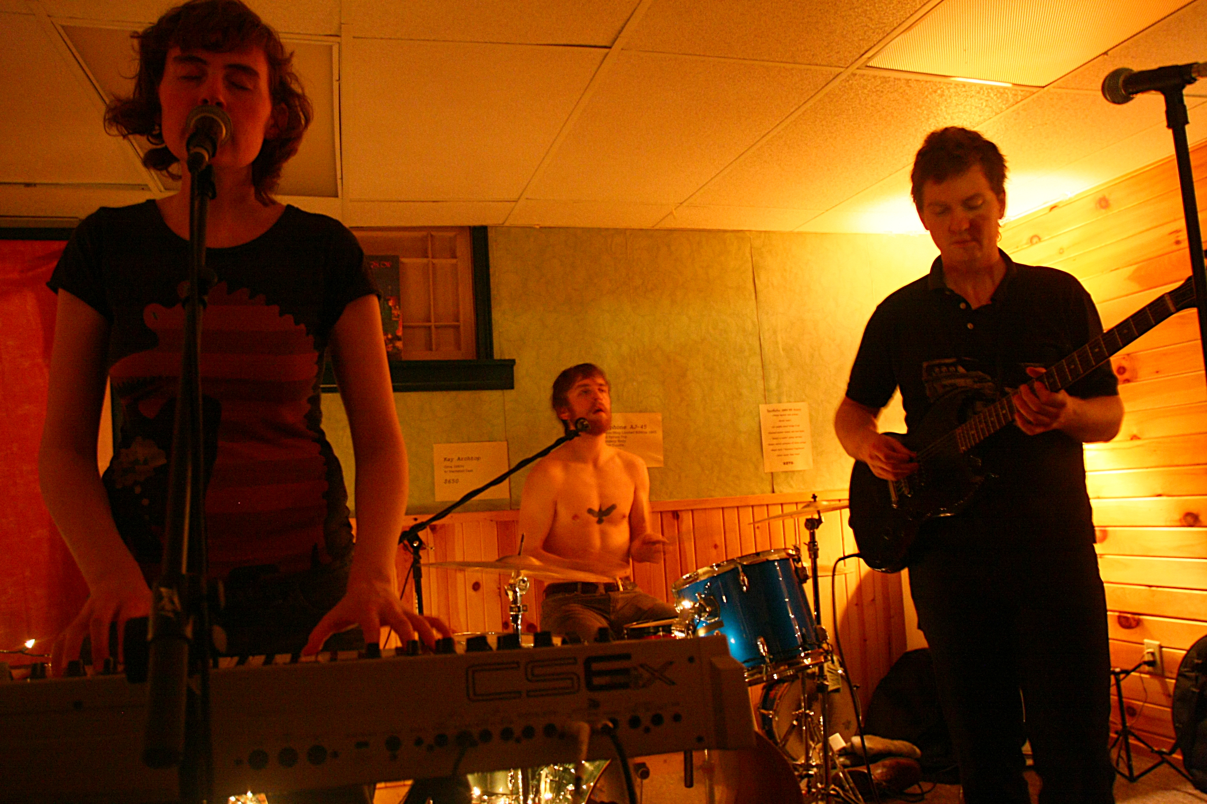 Different angles are fun. Wide angle is key at Back Alley Music, it's small, but intimate. I'm still pumped about how good the shows were yesterday. :) I didn't bring my camera to Baba's, which was probably a good idea, but I missed out on getting pictures of Smothered in Hugs. Though it was much darker there, and the pictures would have been pretty crappy.